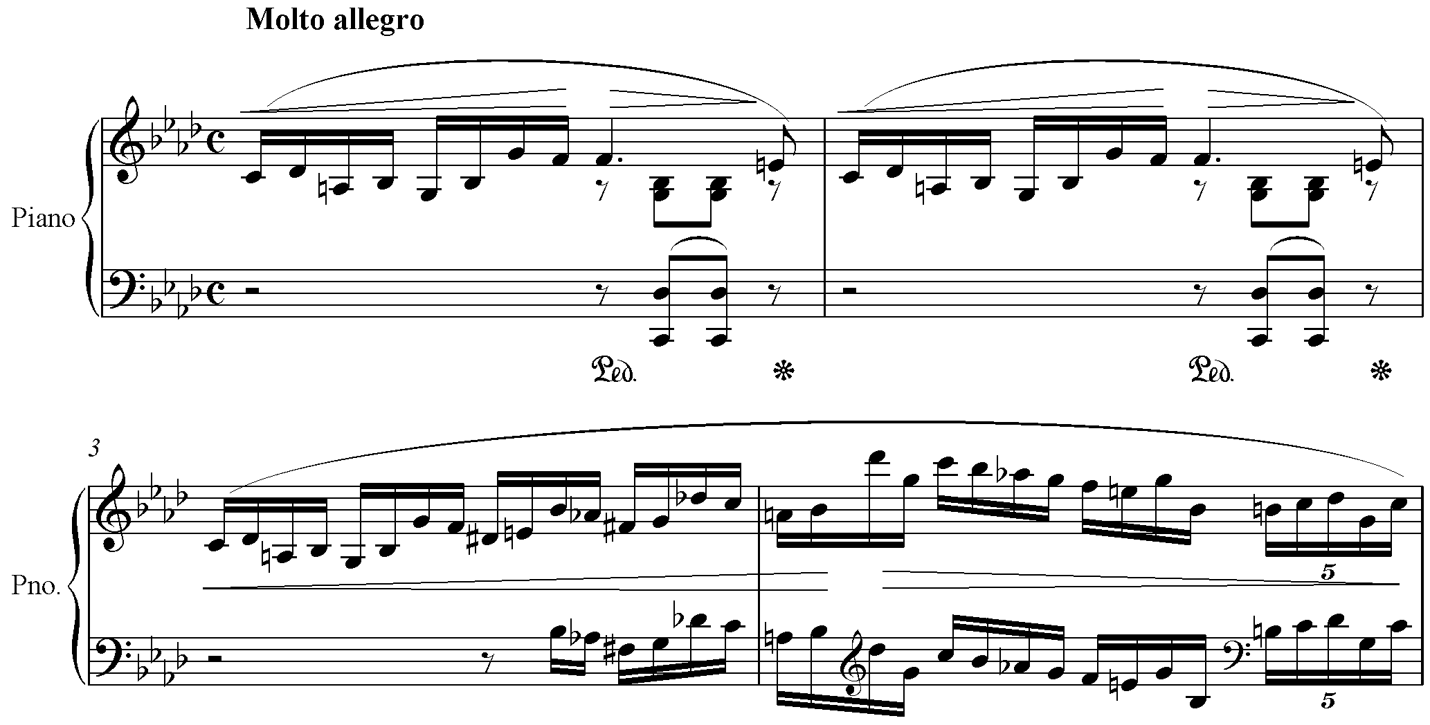 4 first bars of Chopins prelude 18 op. 28